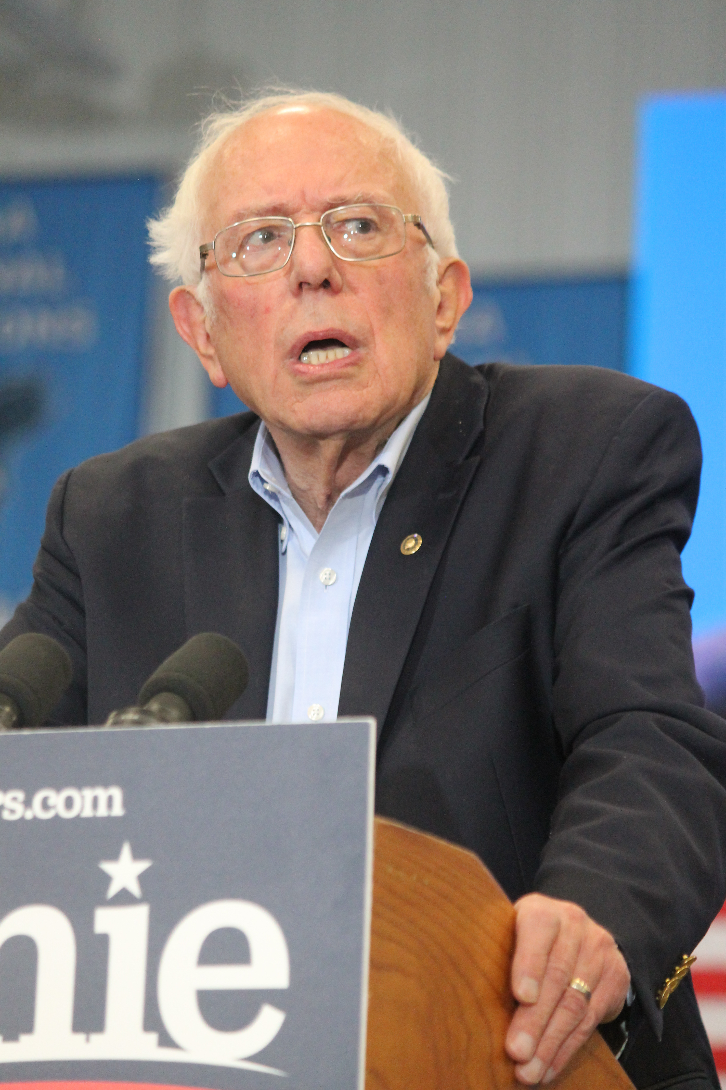 Bernie Sanders speaking to rally attendees in Council Bluffs, Iowa. Please credit Matt A.J. if used elsewhere.